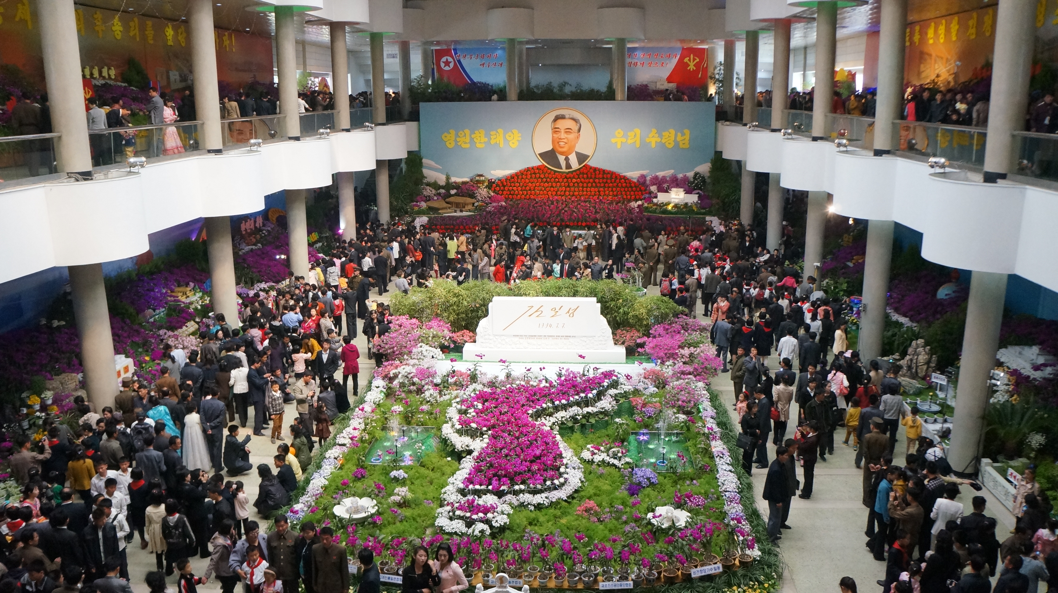 Kim Il Sung Birthday Celebrations April 15, 2014